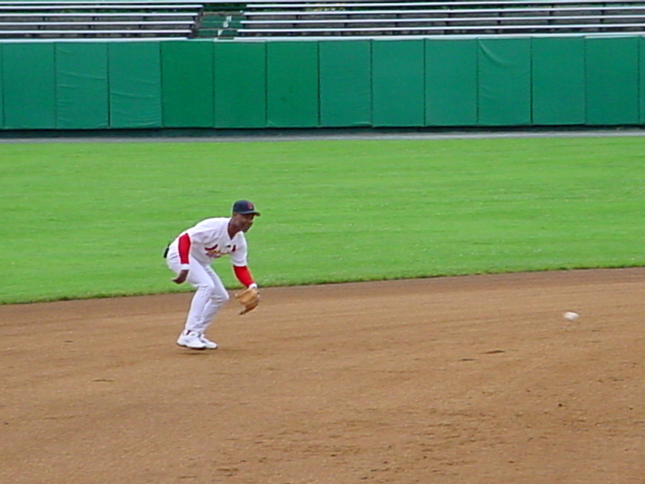 Ozzie Smith fields a ground ball at Doubleday Field in Cooperstown, New York during a special event where some fans had the opportunity to turn a double play with him. Picture taken on July 26, 2002 at apprx. 9:40am Eastern Daylight Time with a Sony Cybershot digital camera.